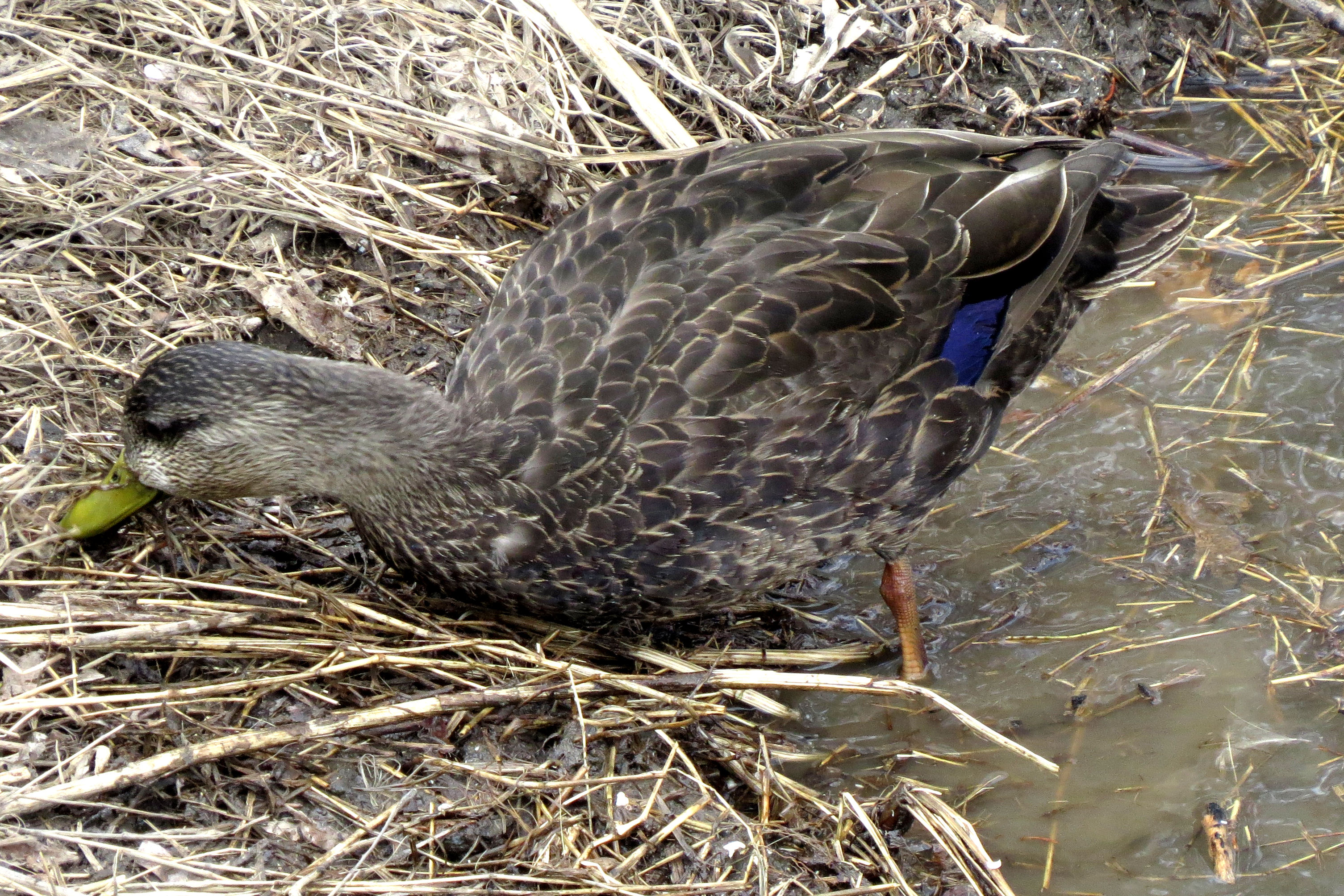 American Black Duck (Anas rubripes), male with speculum showing, Rideau River, Ottawa, Ontario, Canada